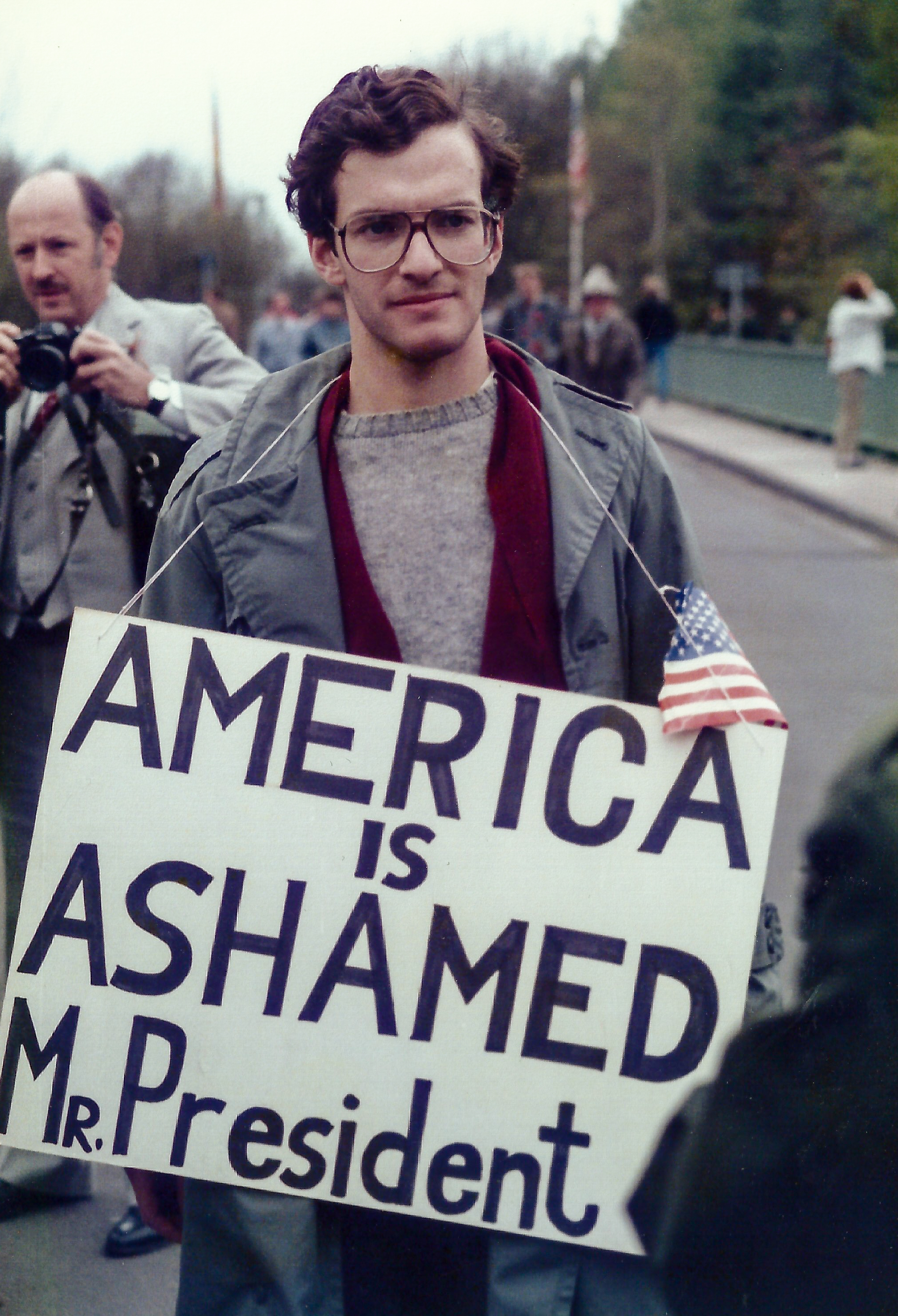 Ceremonial visit by U.S. President Ronald Reagan to the Kolmeshöhe Cemetery, near Bitburg, West German in May 5, 1985, with German Chancellor Helmut Kohl // Detail: Protester with Transparent saying "America is ashamed Mr. Presdent"